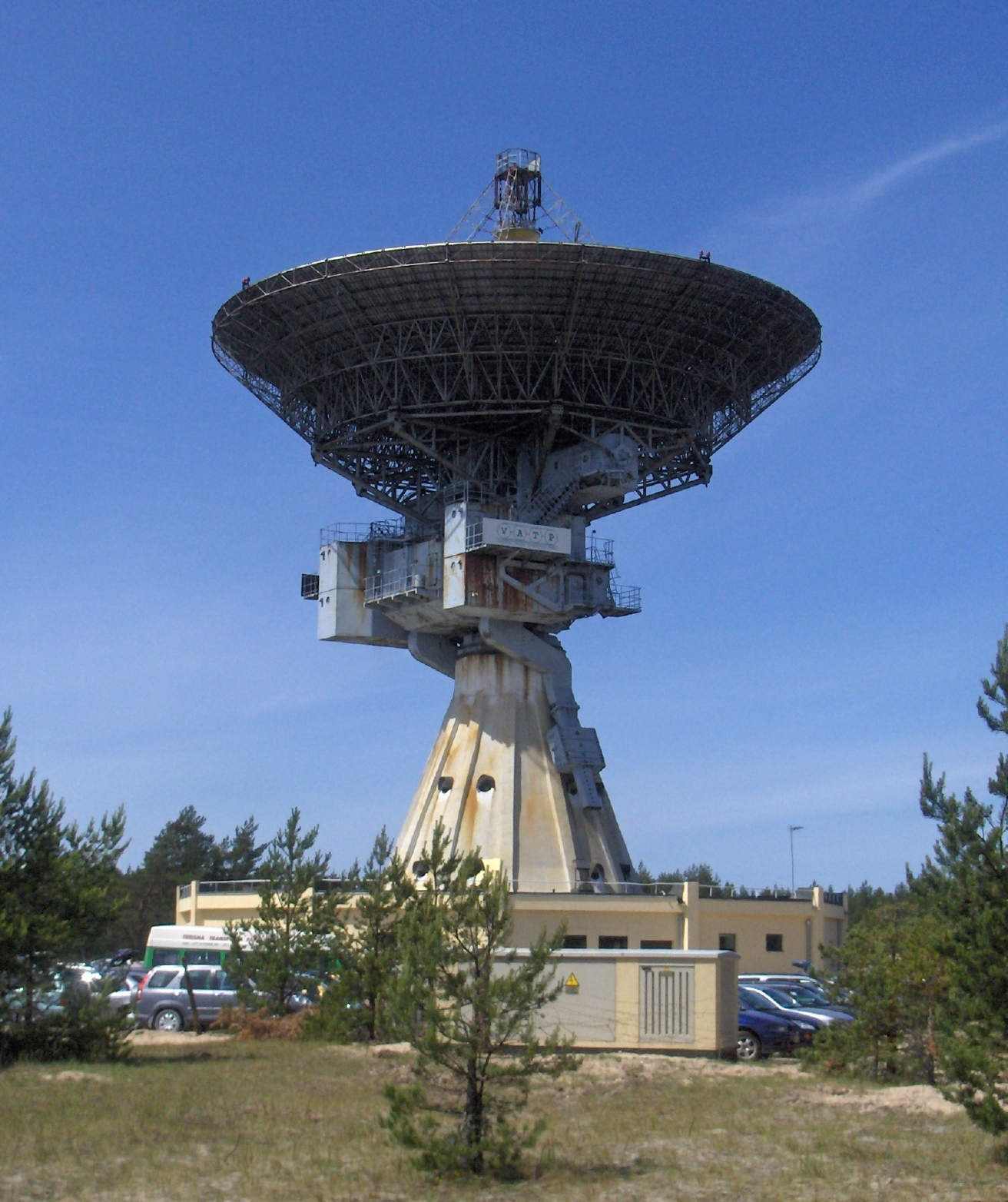 32 m radiotelescope RT-32 in Latvia, near Ventspils